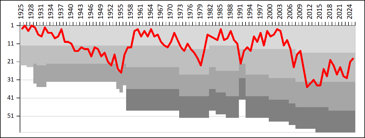 A chart showing the progress of Örgryte IS through the Swedish football league system. Horizontal black lines represent league divisions.